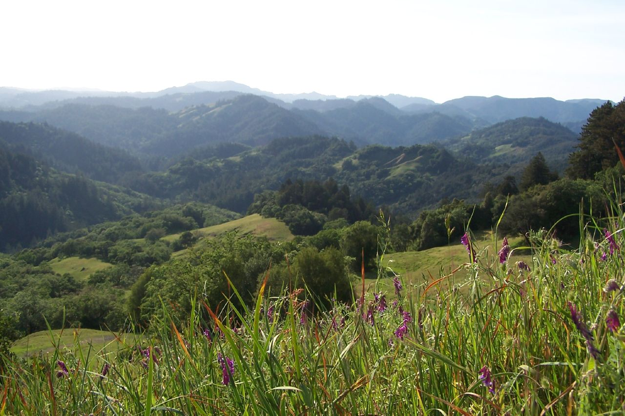 Austin Creek State Recreation Area, Sonoma County, California, USAoverlook at Austin Creek - near Guerneville, Sonoma County, California.